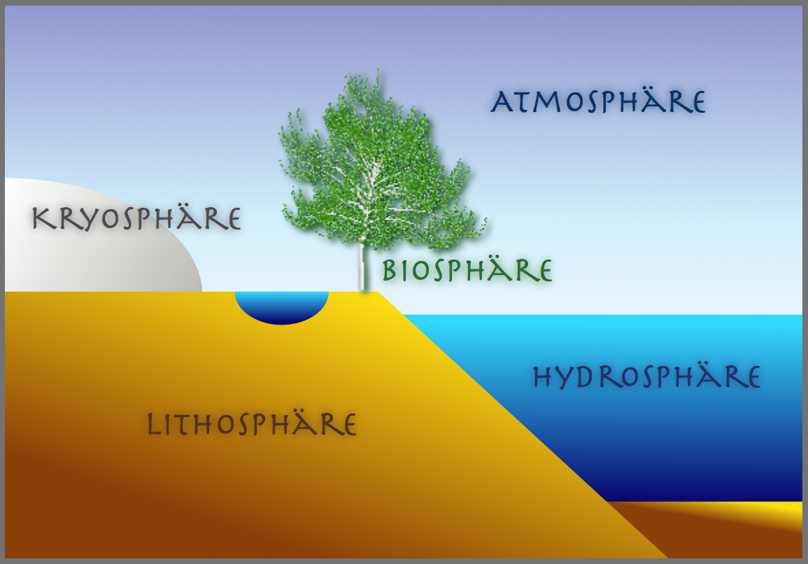 The Geosphere can be divided into hydrosphere, kryosphere, lithosphere, biosphere and atmosphere.